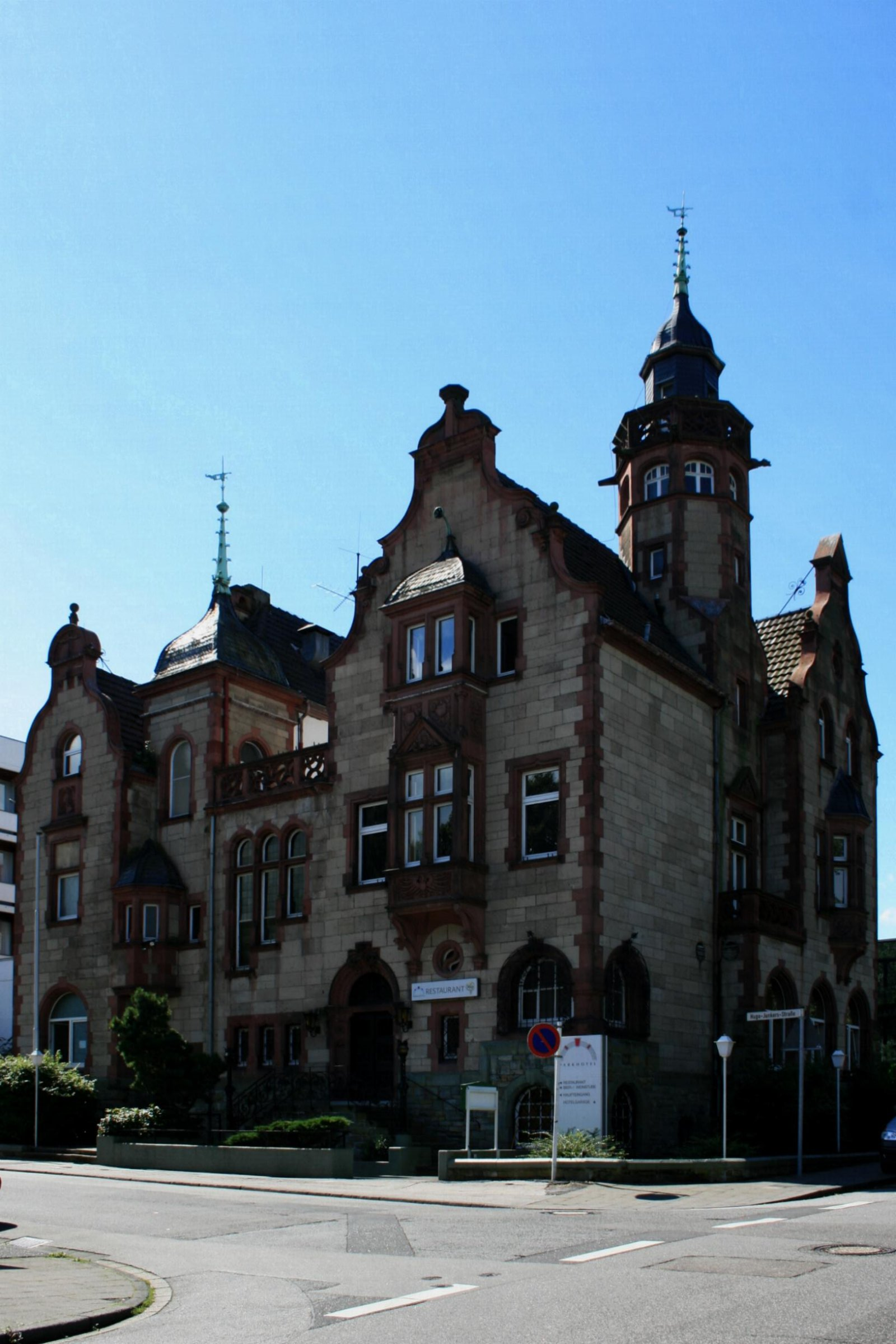 Cultural heritage monument No. H 052 in Mönchengladbach